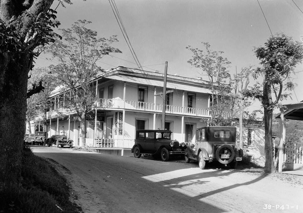 Exterior of the Leger Hotel — Mokulemne Hill, Calaveras County, Northern California. Image courtesy of the federal HABS—Historic American Buildings Survey of California.